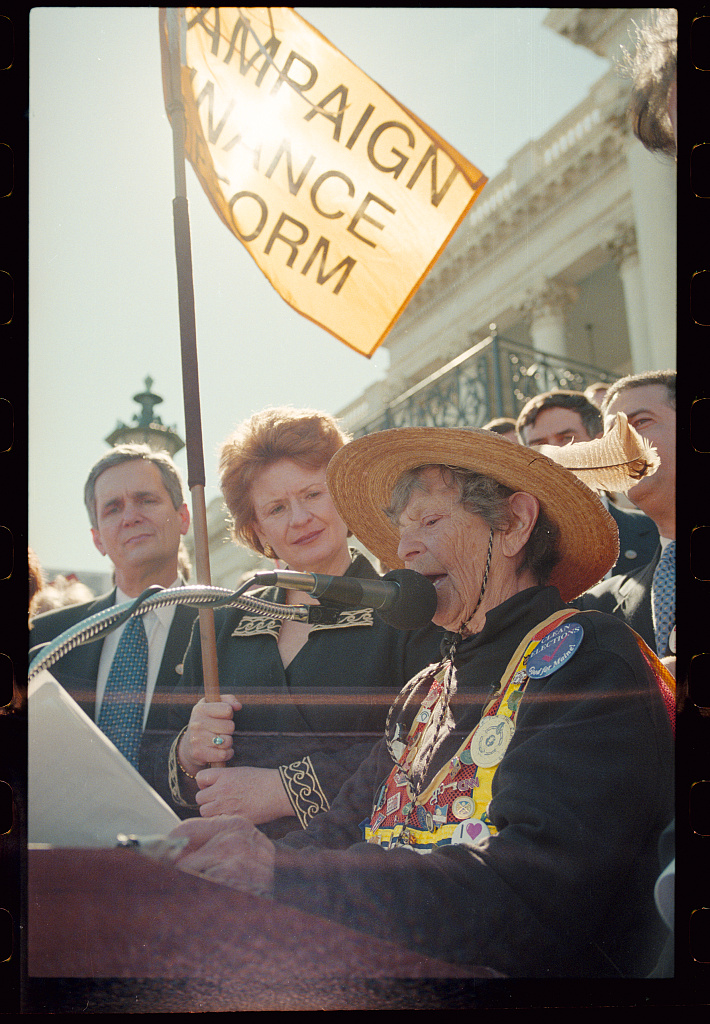 90-year-old political activist Doris "Granny D" Haddock speaking at a podium with others, outside the U.S. Capitol after her walk from Los Angeles to Washington, D.C. in support of campaign finance reform